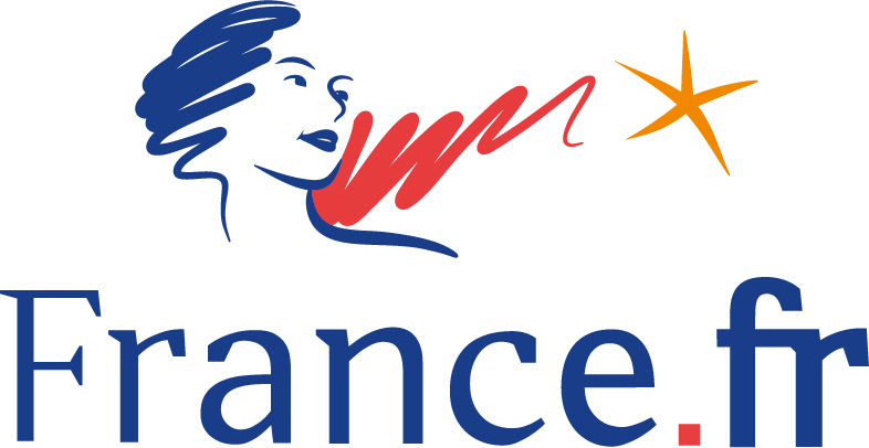 marque utilisée pour la promotion du tourisme en France